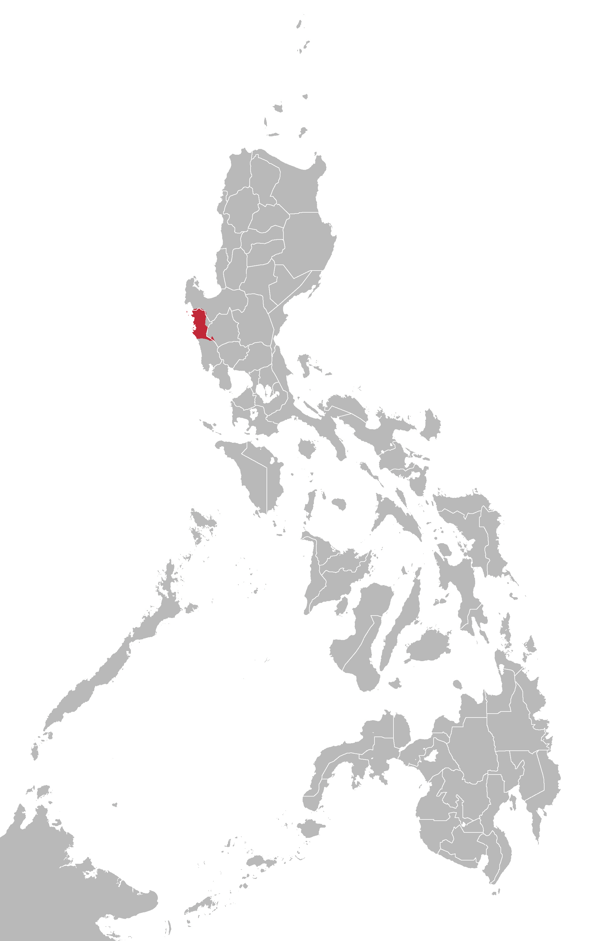 Sambal language map based on Ethnologue maps